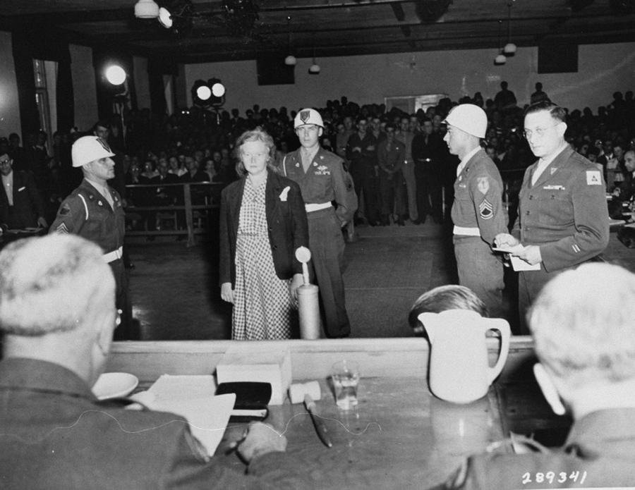 Ilse Koch is sentenced to life in prison by Brigadier General Emil C. Kiel (back to camera) at the trial of former camp personnel and prisoners from Buchenwald.